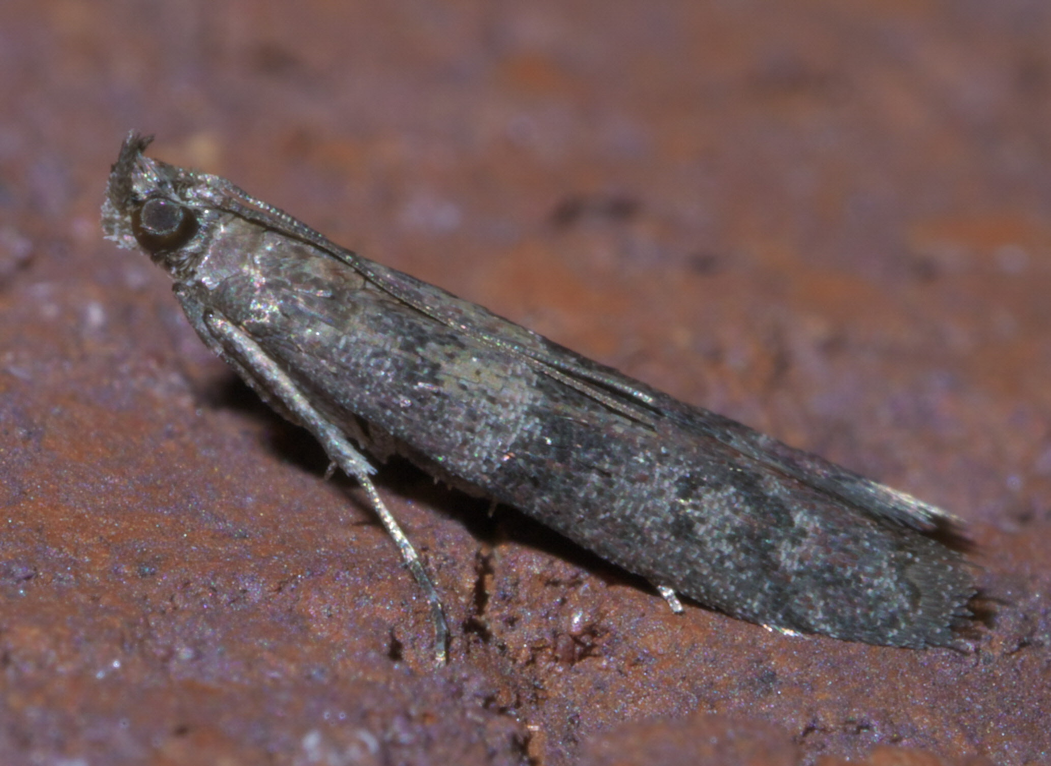 Ephestiodes infimella, Hodges #6001, Size: 7.1 mm, ID Confidence: 90